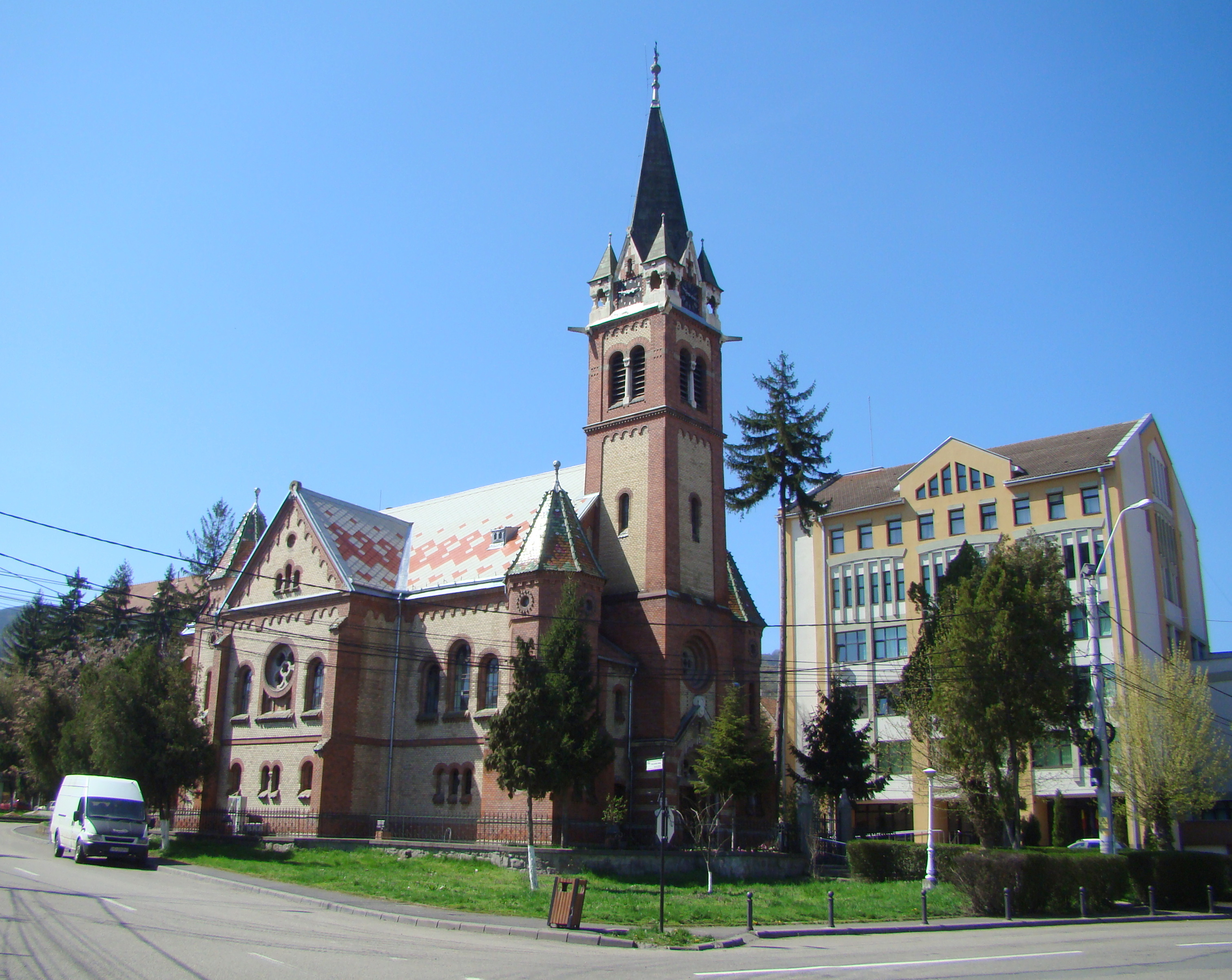 Reformed church in Deva, Hunedoara county, Romania